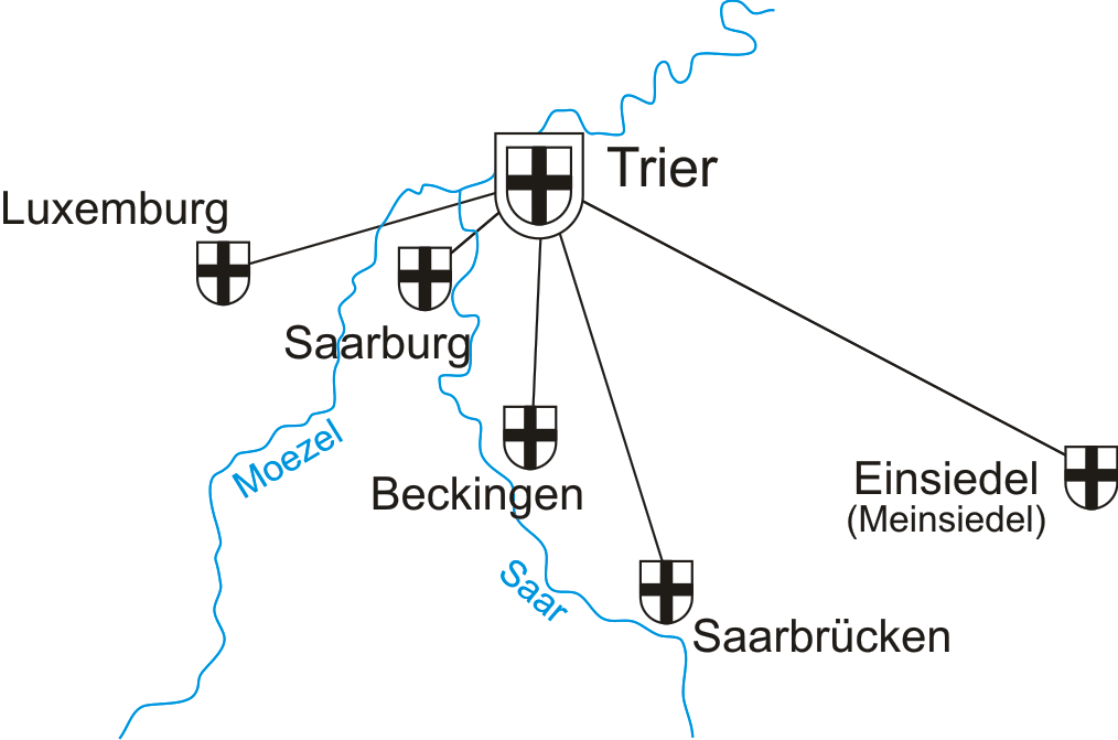 map of the bailiwick of Lorraine of the Teutonic Order (18th century)